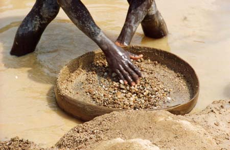 A miner in Kono District, Sierra Leone searches his pan for diamonds.